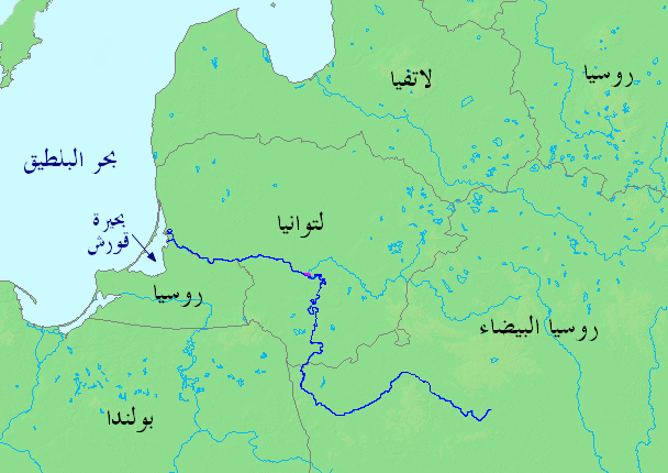 Map highlighting Neman River with Arabic labels